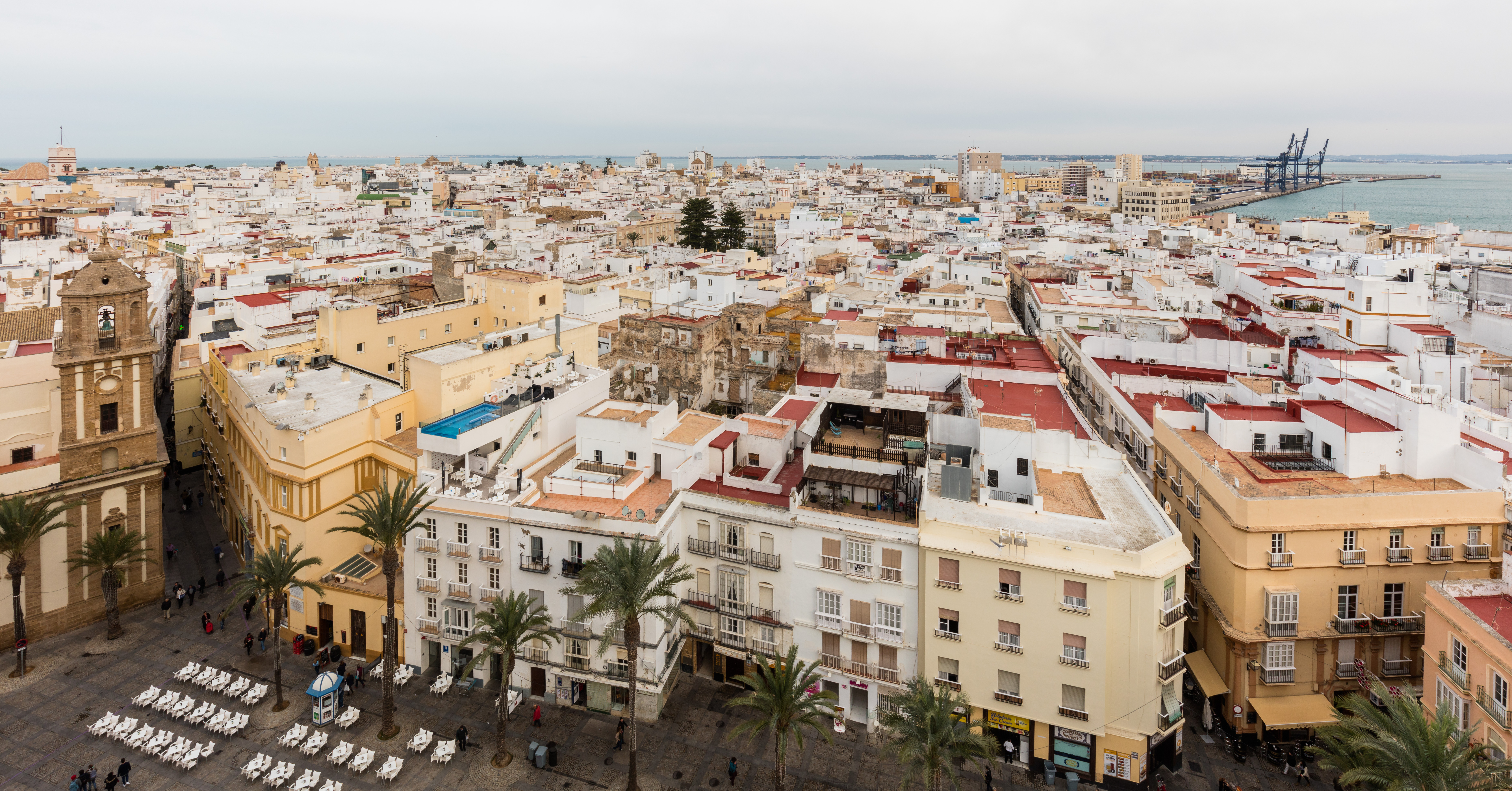 View of Cádiz, Spain